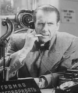 Rostislav Plyatt as Vasily Grigoryevich Bubentsov in Springtime (1947)